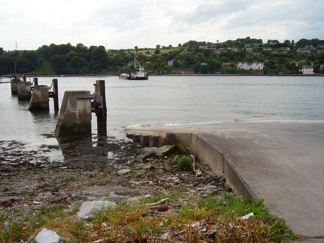 Ferry to Passage West. A ferry across Cork Harbour makes a handy short cut if heading for the South Coast resorts.